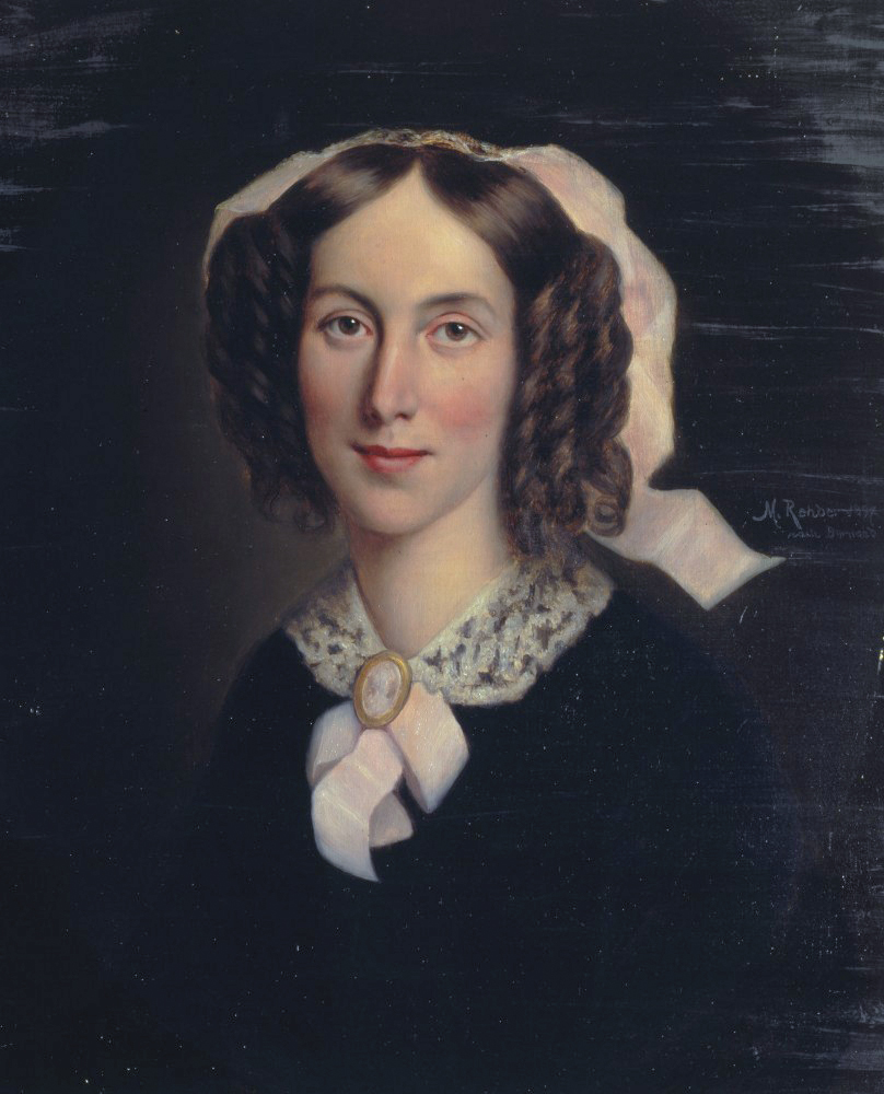 Fanny Henriette Jenisch oil on canvas 60.5 x 48 cm signed c.r.: M. Rehder 1897 / (...)